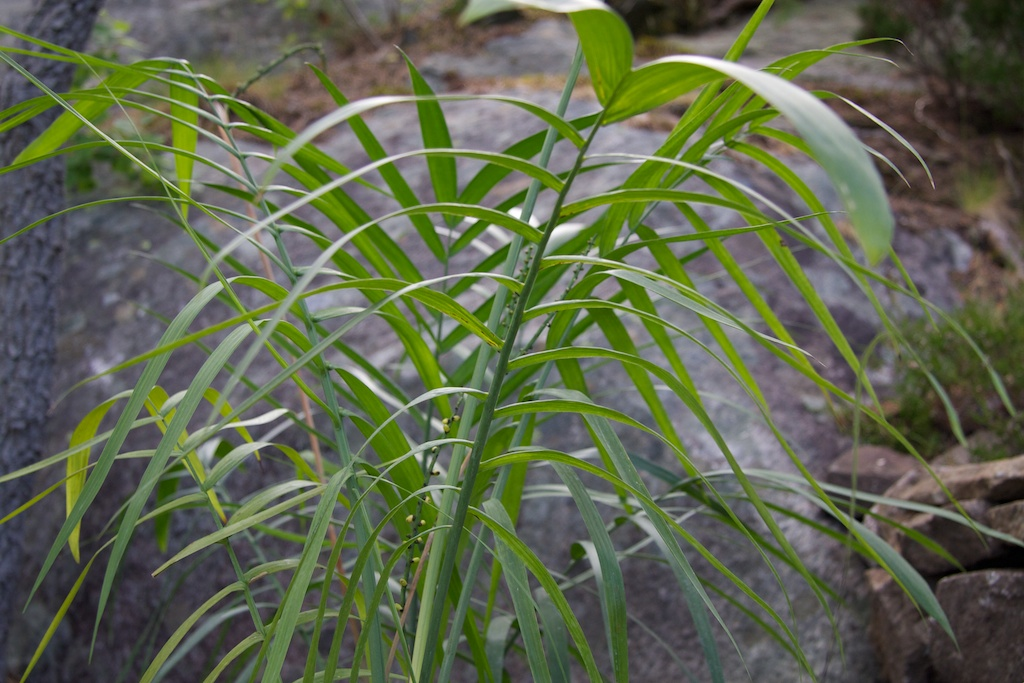 Chamaedorea radicalis' pinnate leaves